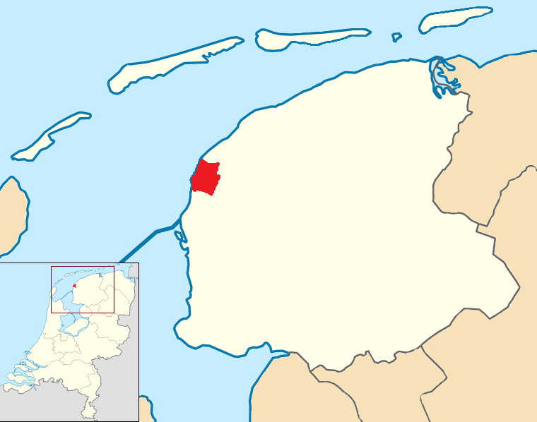 Harlingen, municipality in Friesland, Netherlands, 2018